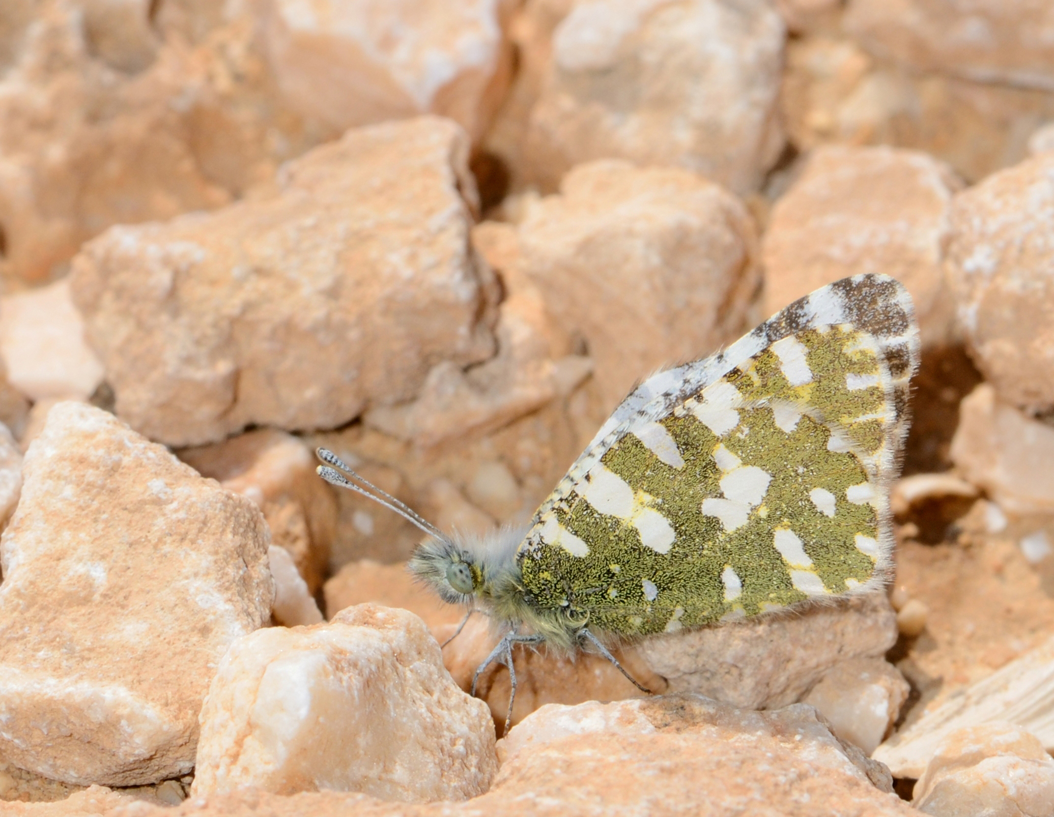 Euchloe aegyptiaca Verity 1911, Ma'ale Lotz, Negev Mountains, Israel, February 18, 2014.